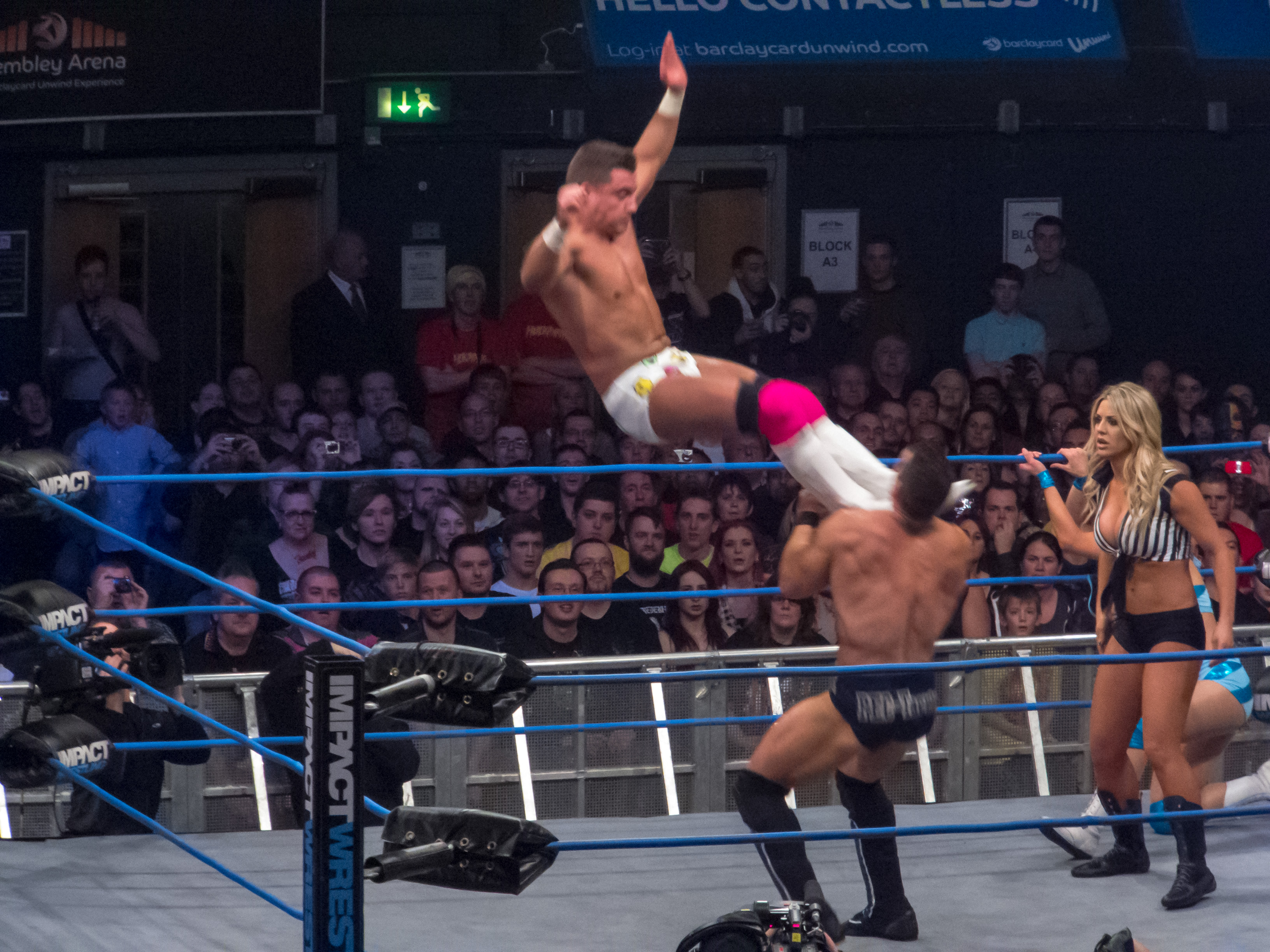 Marty Scurll jumps off the top turnbuckle with a missile dropkick at the Impact! TV Tapings in Wembley, England on January 26, 2013.